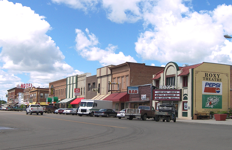 Part of Forsyth Main Street Historic District in Downtown Forsyth, Montana, United States.